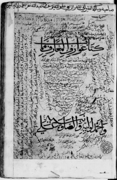 Title page of Awarif al-ma'arif, Ms. Paris, Bibliothèque Nationale, Arabe Nr. 1332